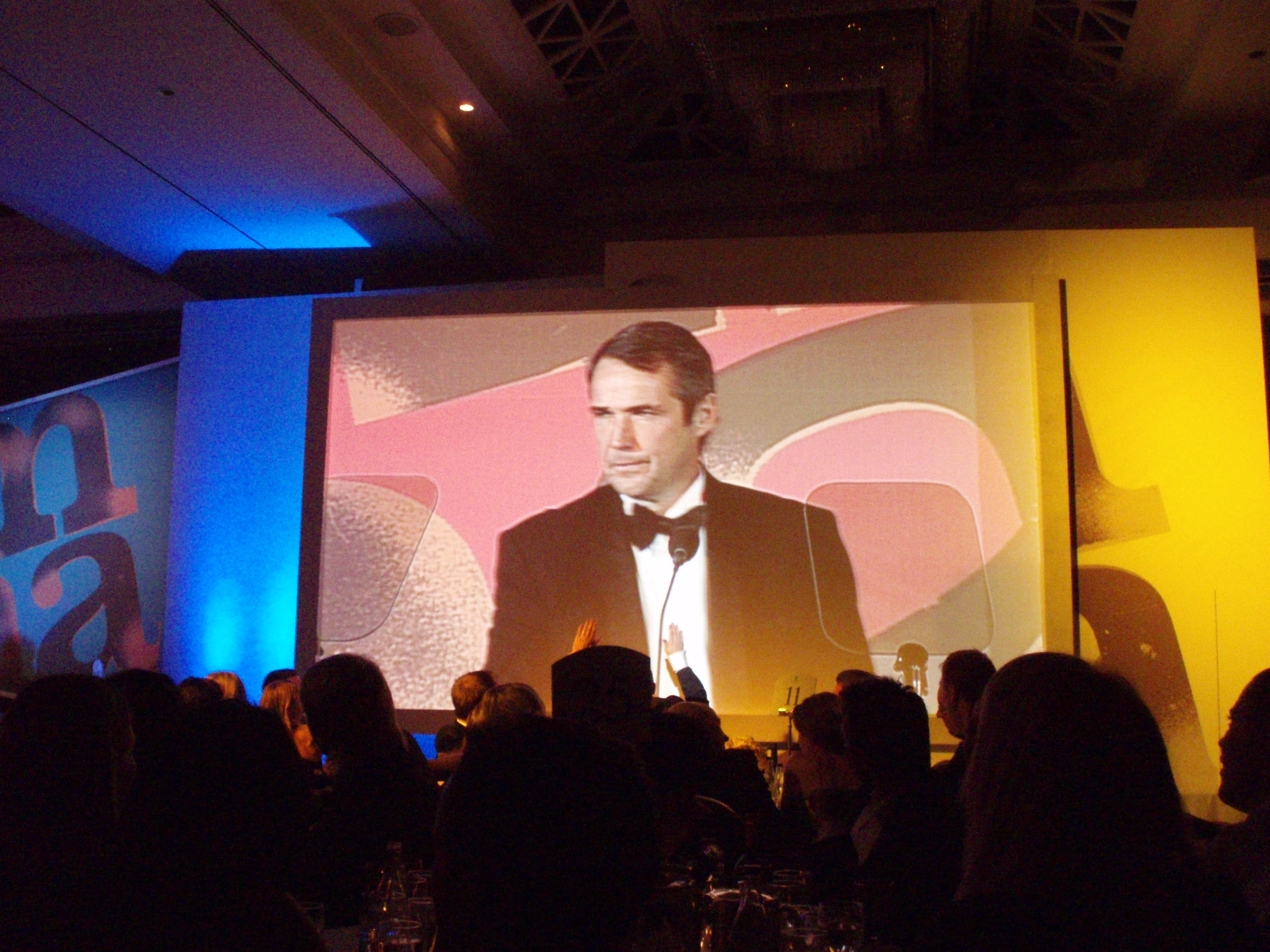 World's most boring man presenting the awards